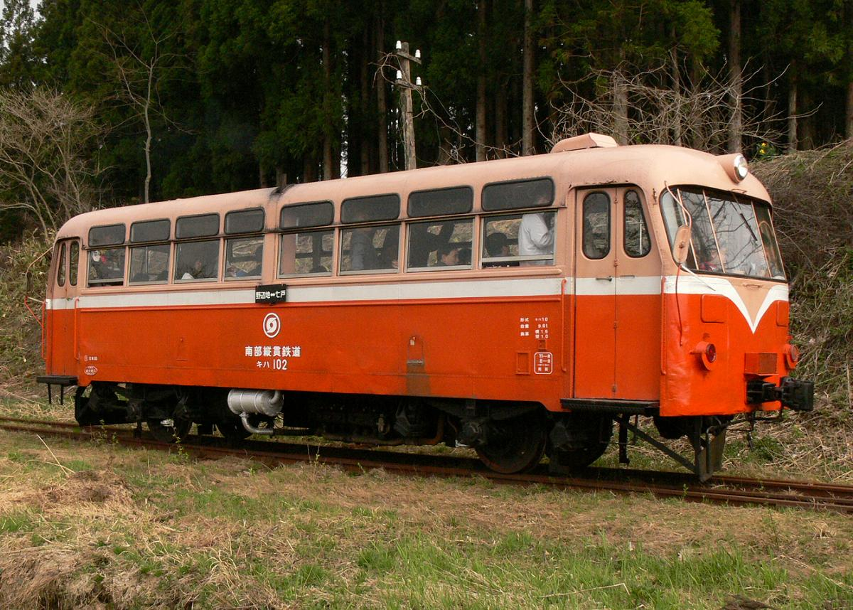 Nanbu Jukan Railway Kiha 102 railbus preserved at Shichinohe Station